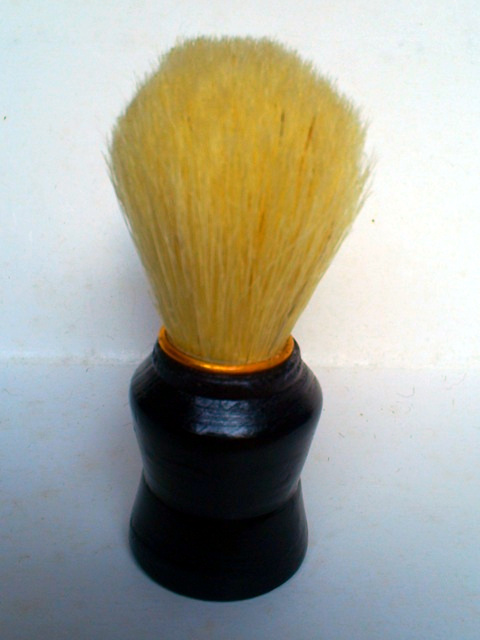 Picture of a new shaving brush, just out of the box. It cost 34p (UK pence) from Wilkinson's .